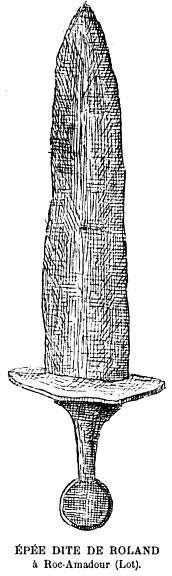 Sword alleged to be Roland's, at Rocamadour